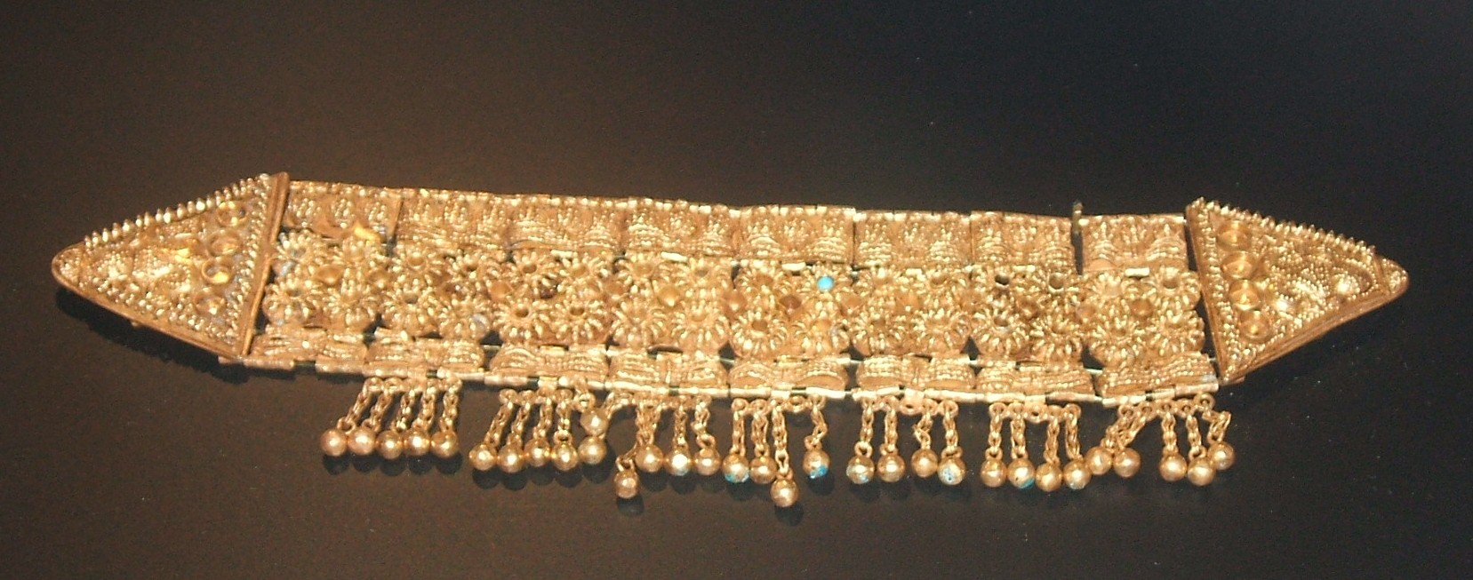 A Tartessian headband, part of the so-called Trasure of Aliseda.